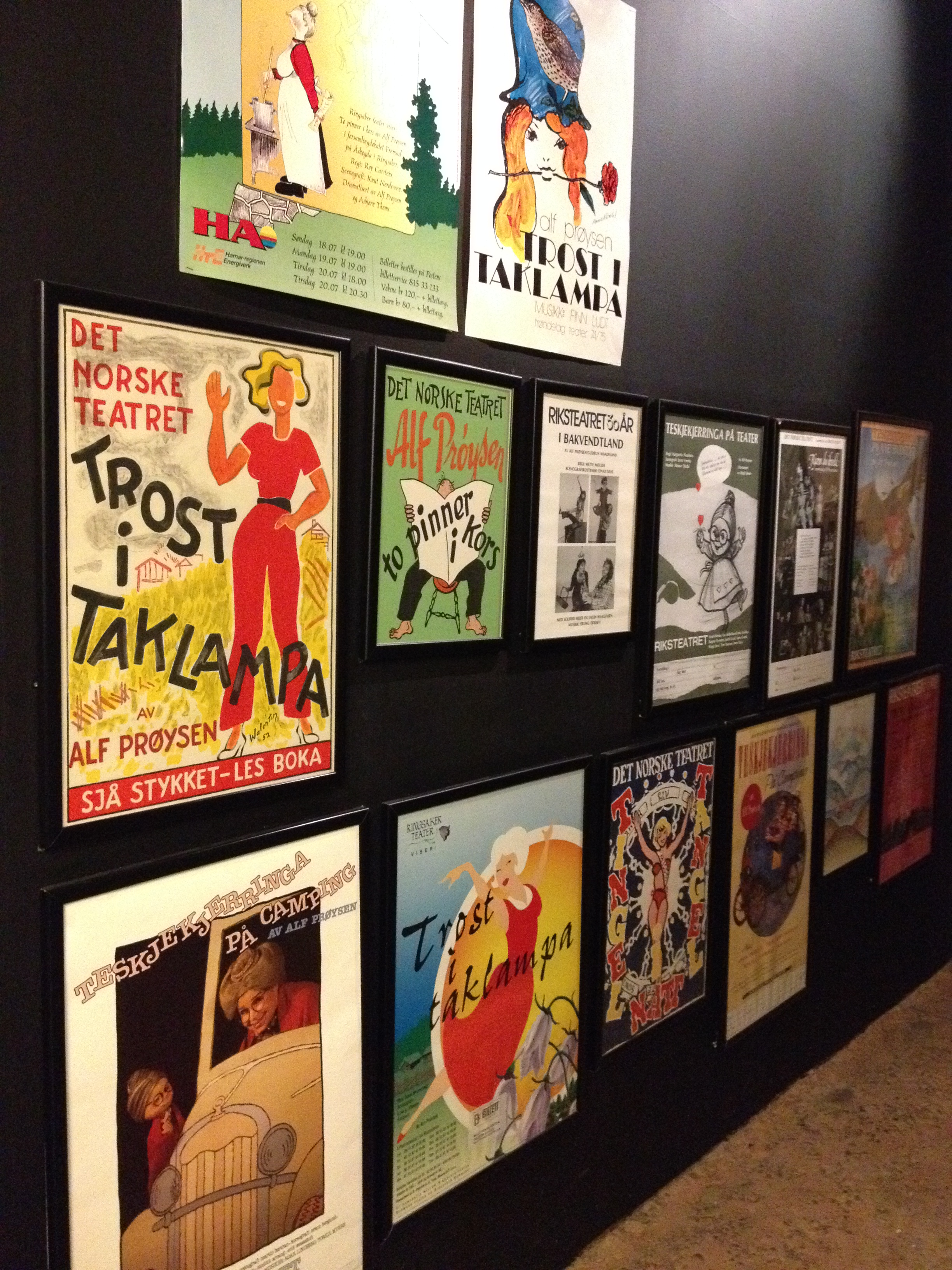 From exhibitions at Prøysenhuset, museum to Alf Prøysen , in Ringsaker Norway